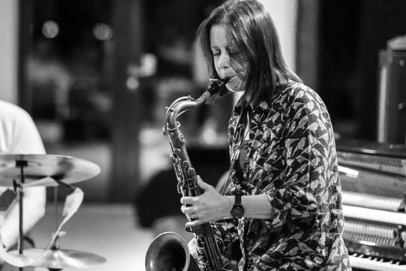 Rachel Musson in Aarhus, Denmark 2019